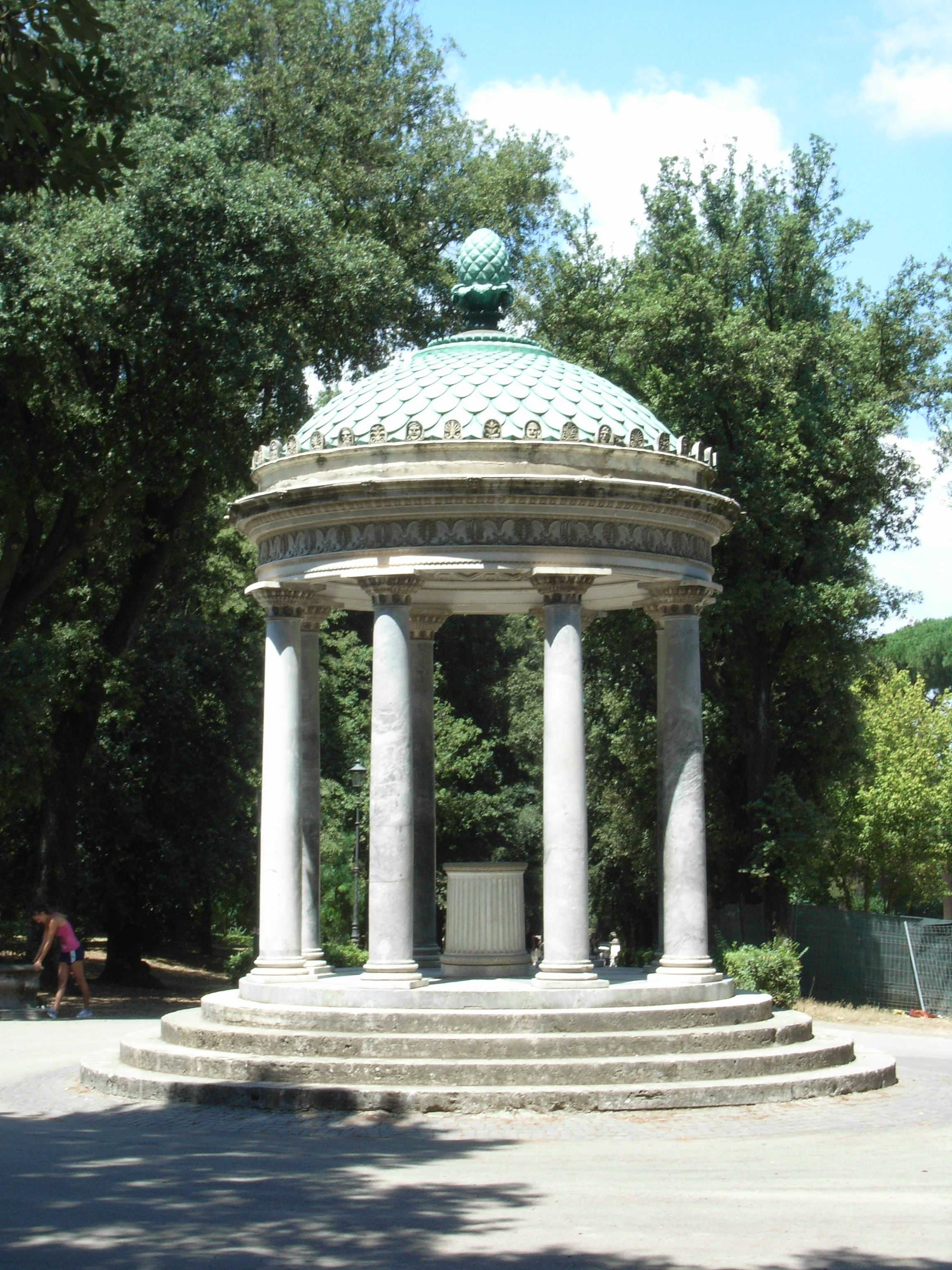 As file